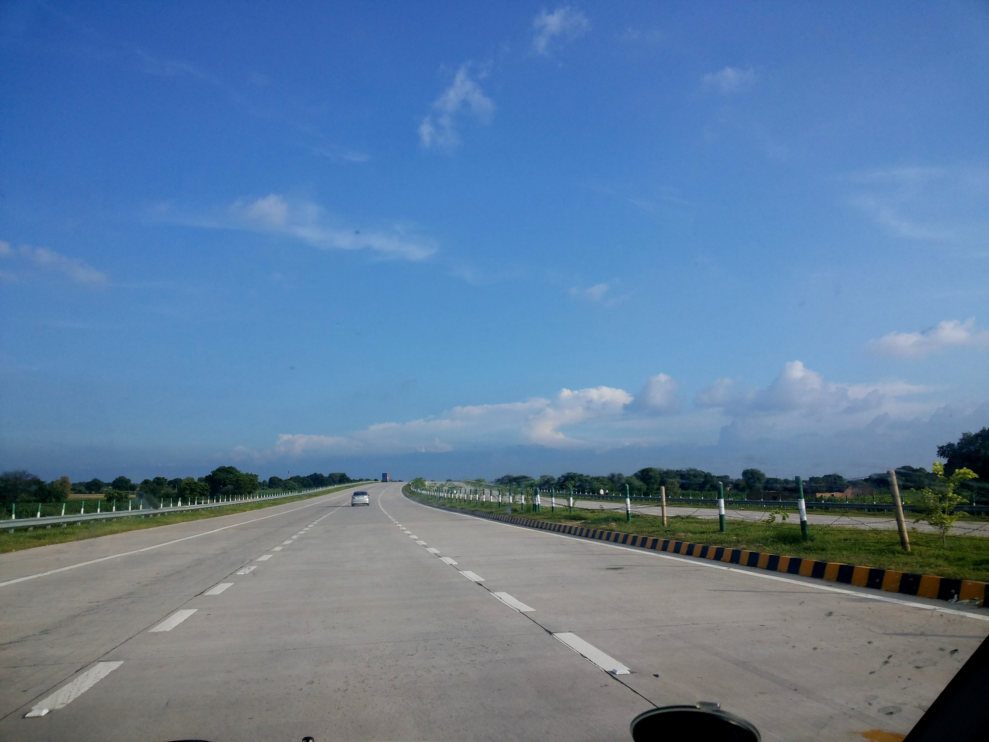 On the 165 kms long expressway between Delhi and Agra, the maximum speed limit is 100 kmph for cars and 60 kms for heavier vehicles - which seems rather conservative: given the quality of the concrete road the maximum speed for cars should be 120 kmph. At 100 kmph, you can drive from one end to another of the rock-n-roll motorway in two hours flat. Fast enough by local standards in India .